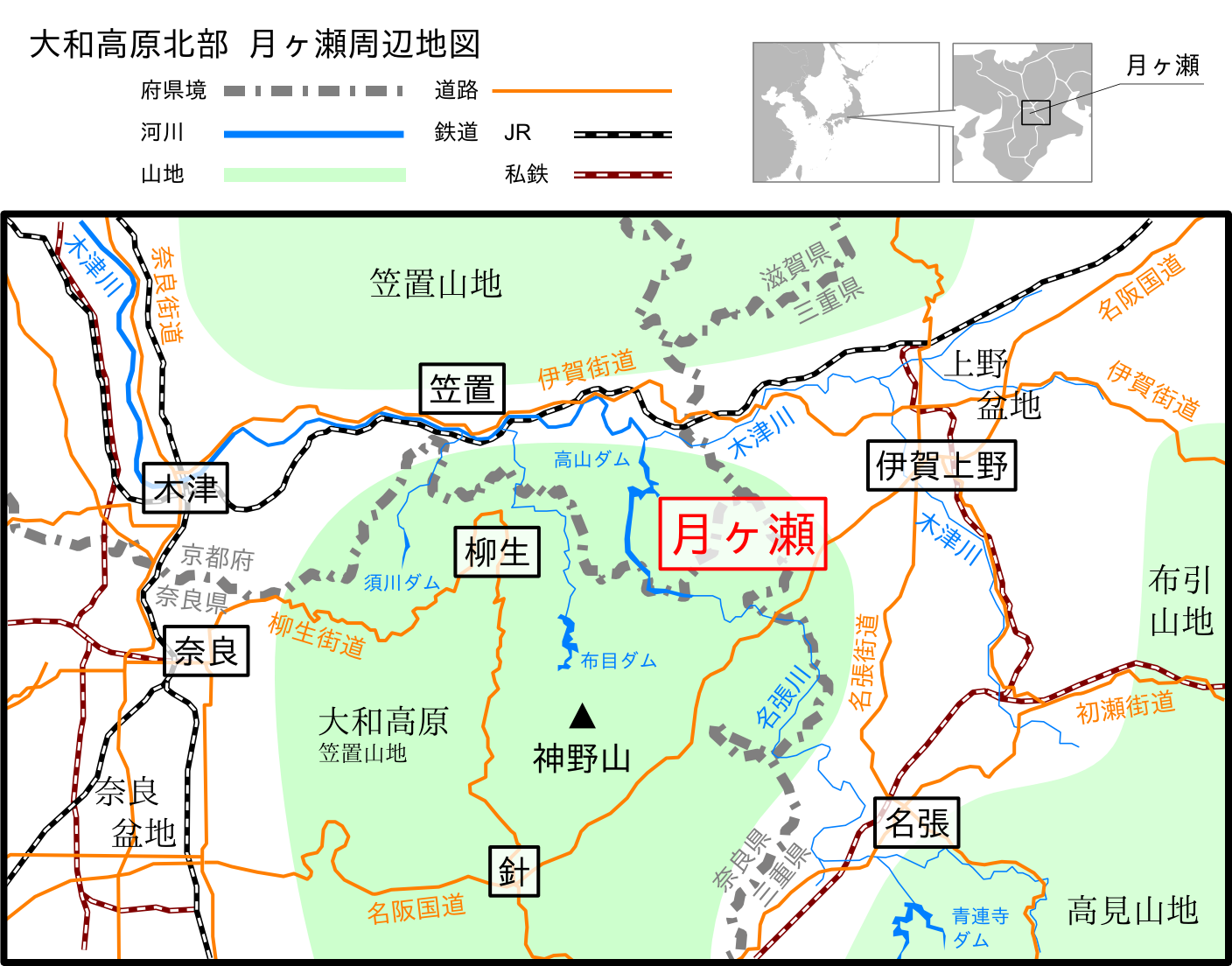 Map of the area around Tsukigase on North Yamato Plateau in Japan